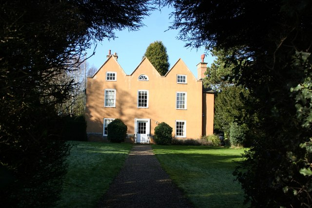 Rampton Prebend Early 17th century Prebend House with an early 19th century stuccoed facade